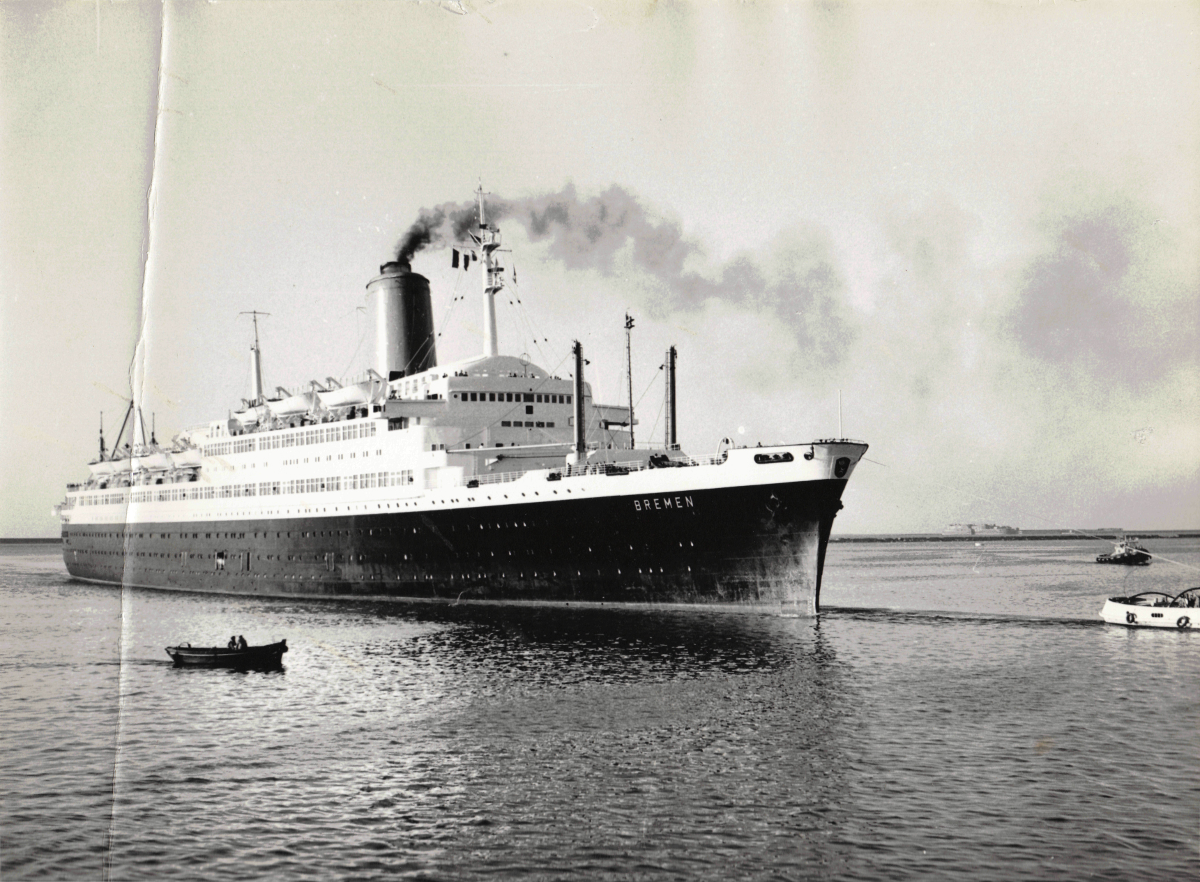 Black-white photo of the liner Bremen arriving in Cherbourg, France, in the early 1970ies.